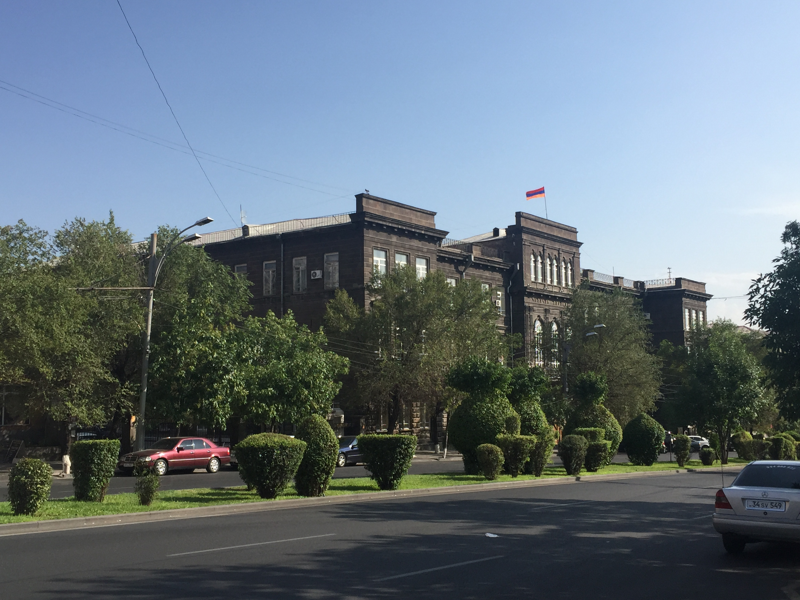 Old building of Yerevan State University, built between 1900 and 1906. Yerevan, Abovyan Street 52 6/177